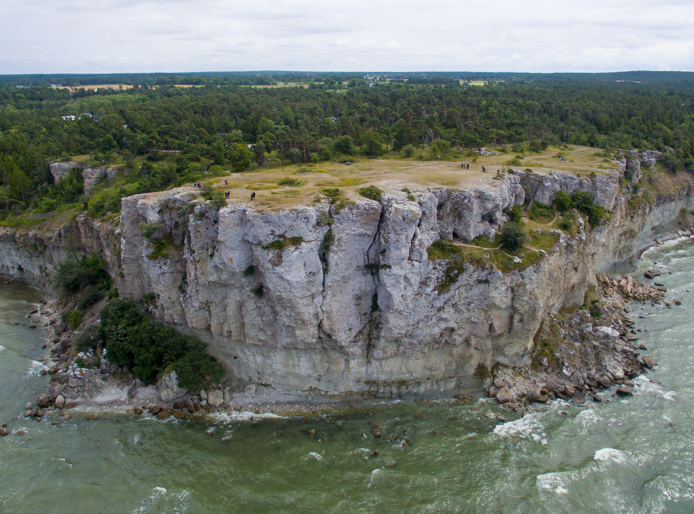 Aerial photograph of Högklint in Västerhejde, Gotland.